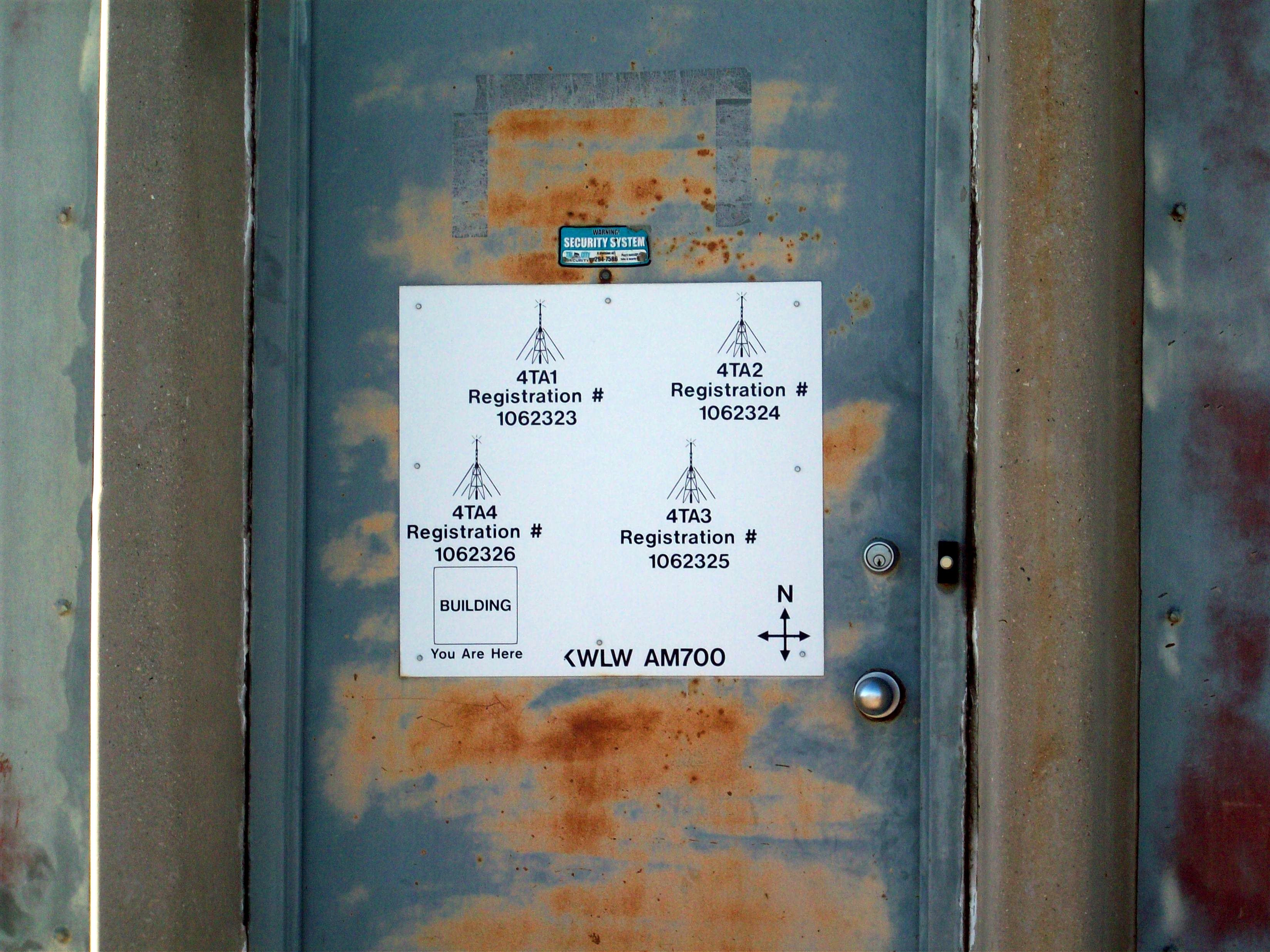 The door to the transmitter building of KALL 700 Salt Lake. This shows the station was once KWLW.